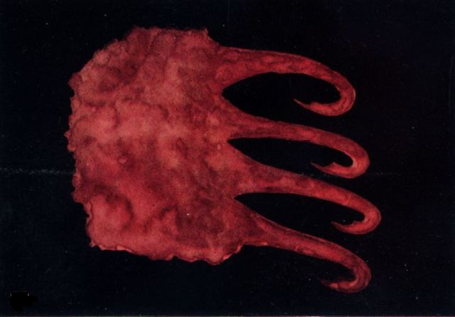 Greed for alcohol - a Thought Form from Thought-Forms, by Annie Besant & C.W. Leadbeater.